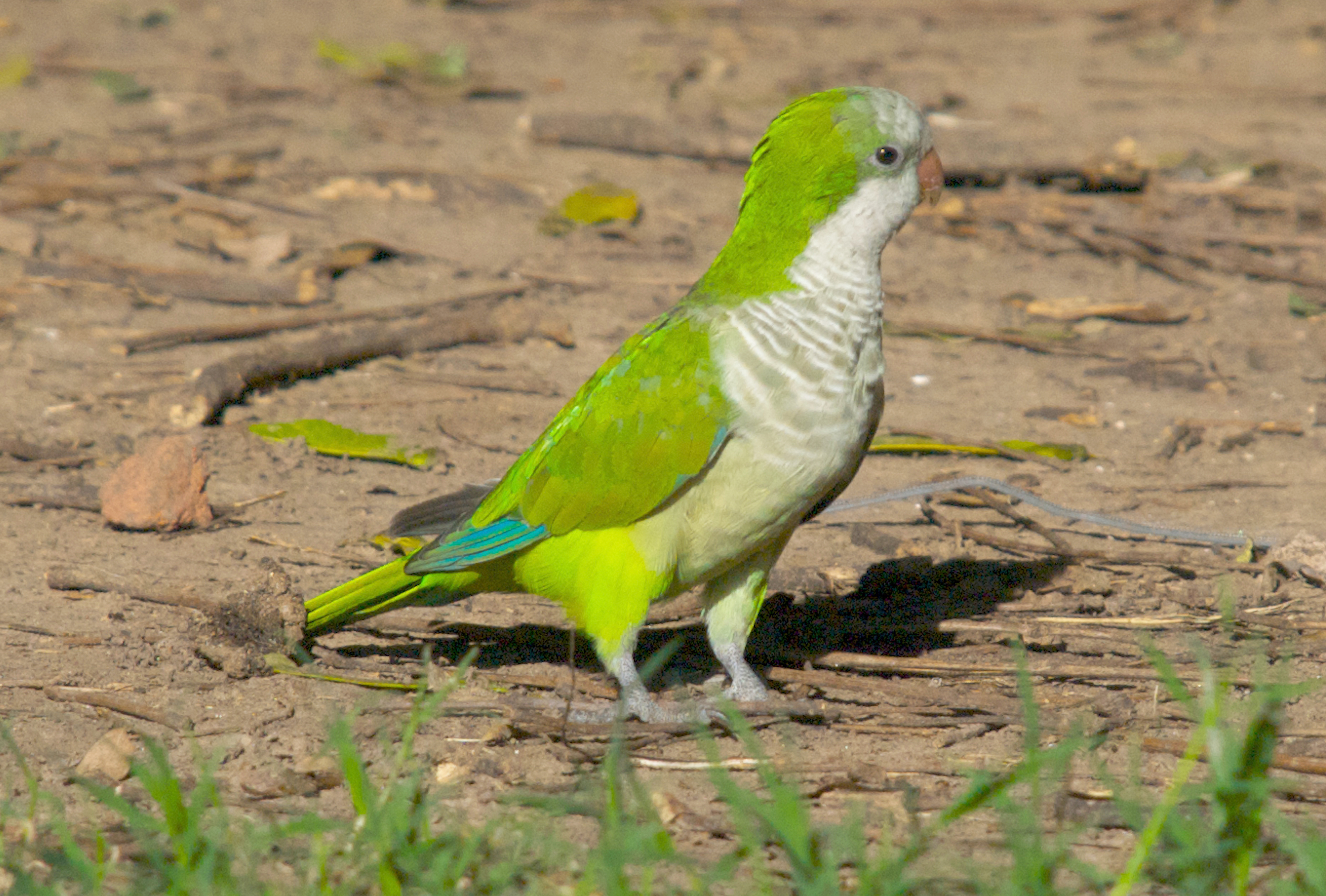 Monk Parakeet or Quaker Parrot (Myiopsitta monachus) on the ground, Buenos Aires, Argentina.